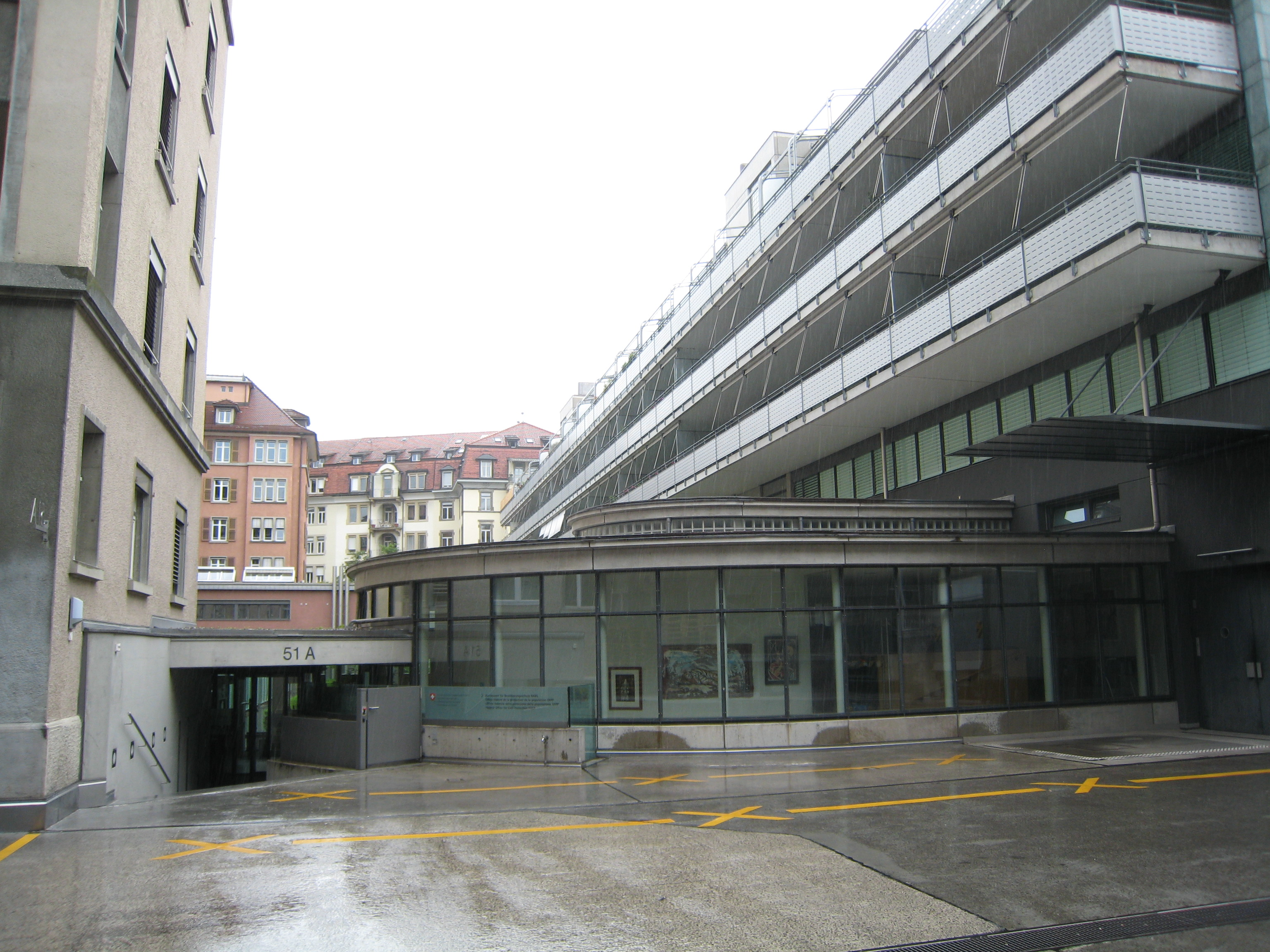 The building of the Swiss Federal Office for Civil Protection (FOCP), Berne.